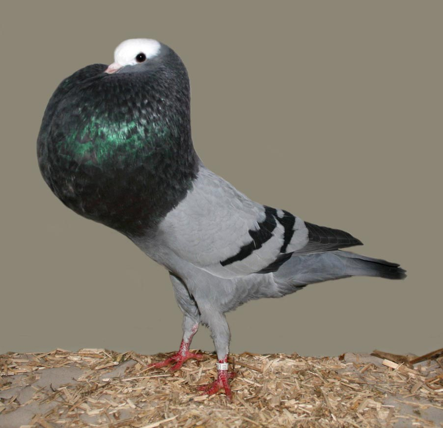 Silesian Cropper (Blue Bar)